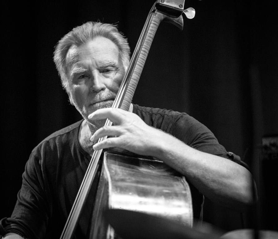 Bjørn Alterhaug Quintet at the stage at Victoria Teater. The concert was part of Oslo Jazzfestival and took place on 16. August 2017. Lineup: Bjørn Alterhaug (double bass), Jon Pål Inderberg (saxophone), Vigleik Storaas (piano), Frode Nymo (saxophone) and Erik Nylander (drums).